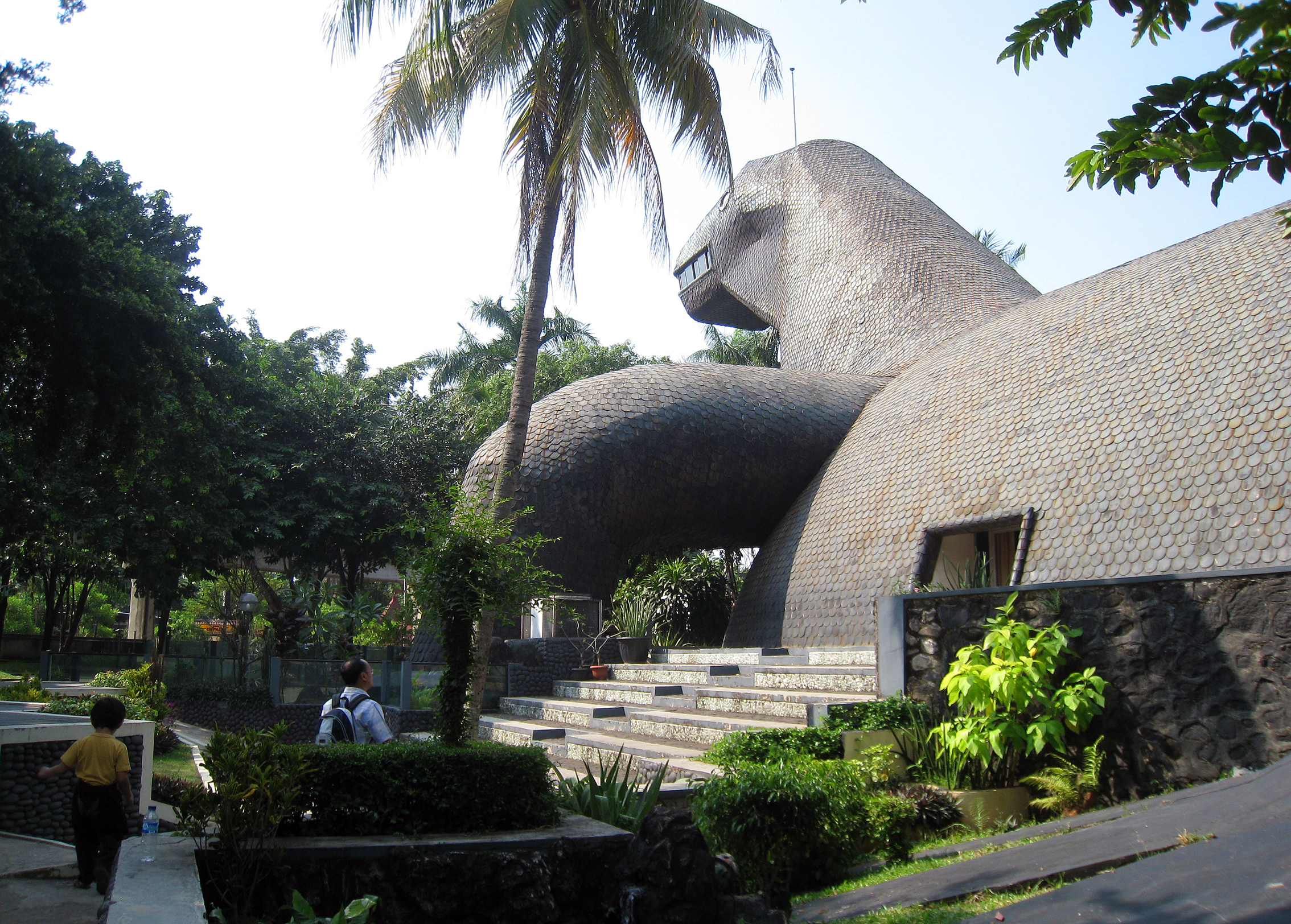 The building of Komodo Indonesia Fauna Museum took form of a giant Komodo dragon. The museum is surrounded by Reptile Park in Taman Mini Indonesia Indah, Jakarta, Indonesia.